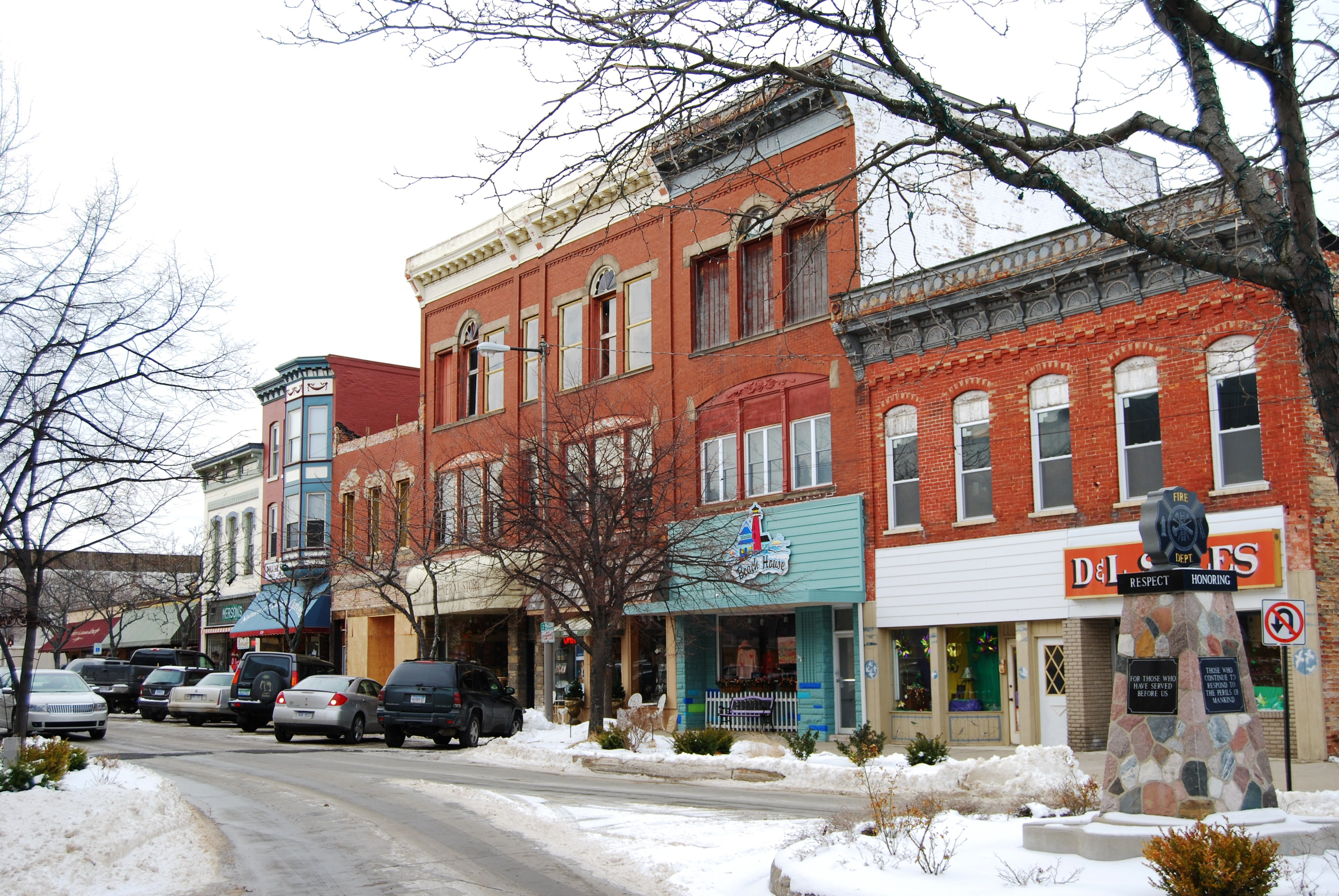 South Haven, Downtown